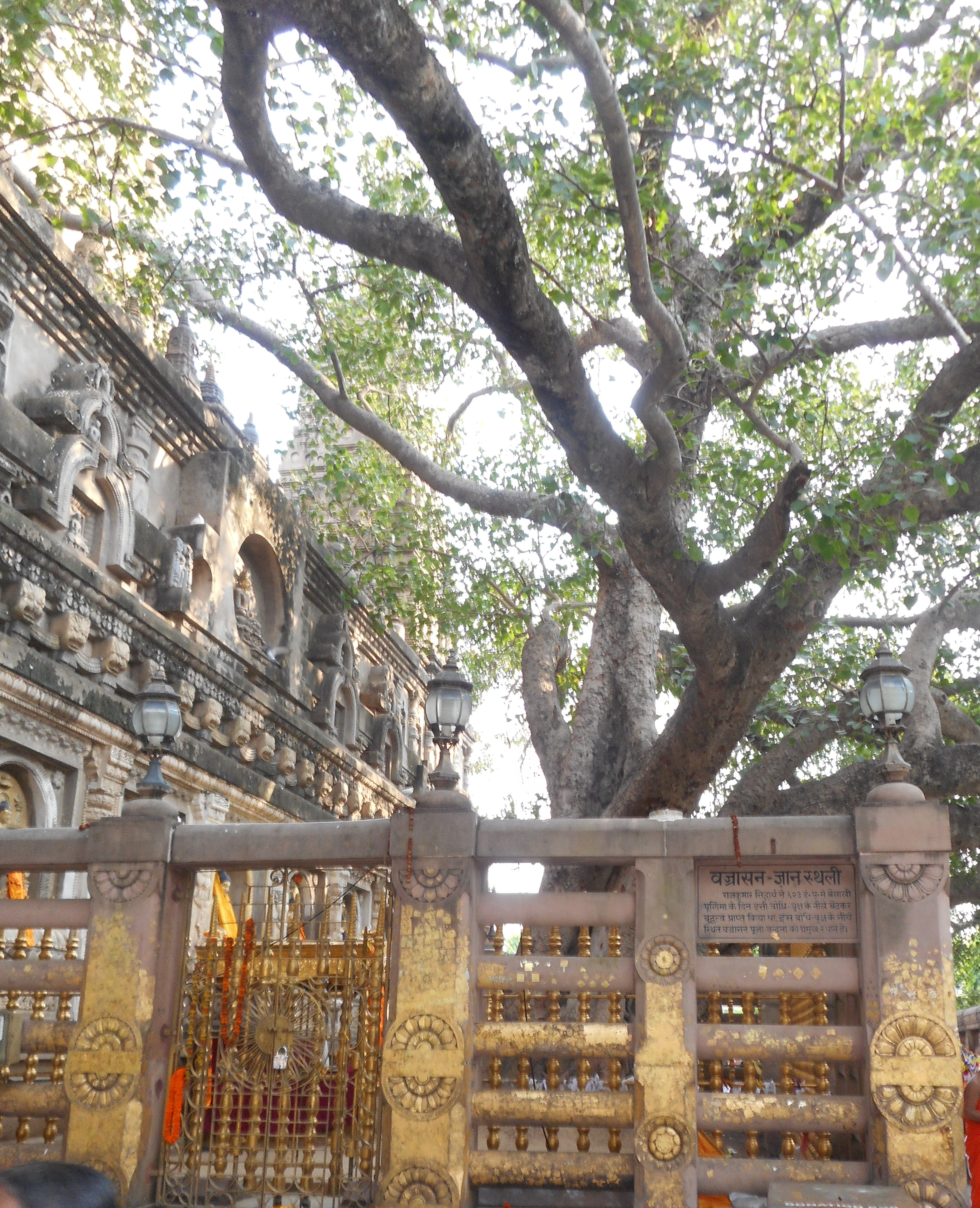 Mahabodhi Temple Bodhgaya புத்தகயா மகாபோதி கோயில்